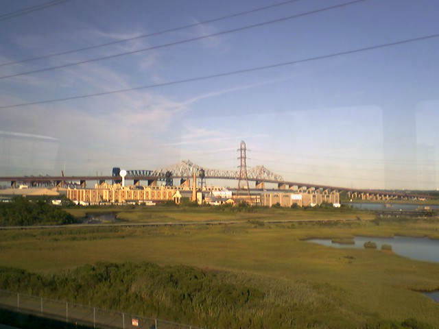 As seen from the I-95 turnpike, through the yards and weed, to the river.